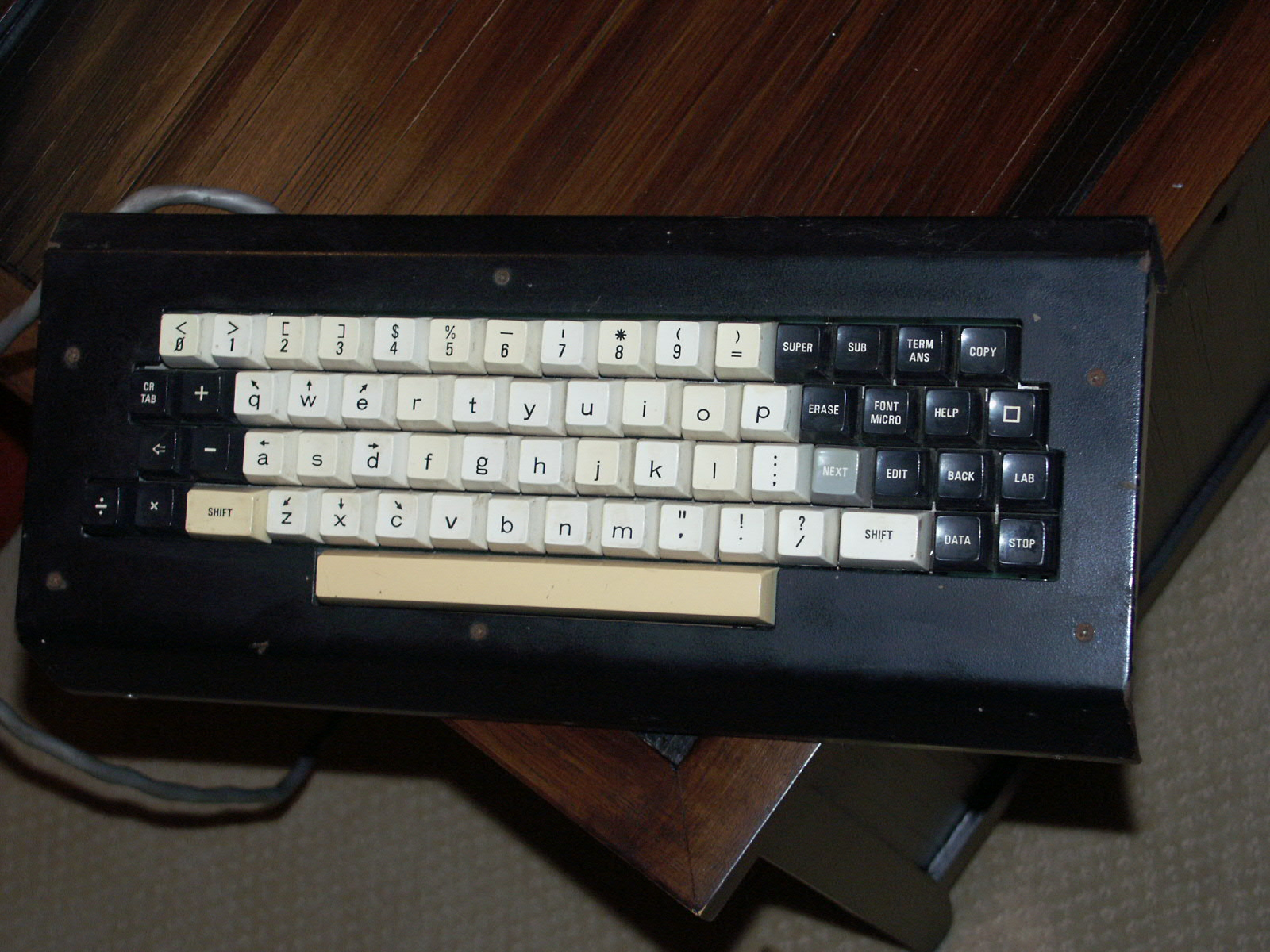 Standard keyboard for a PLATO IV terminal, circa 1976. Photo taken August 20th, 2005, and released to the public domain by the creator for historical purposes.